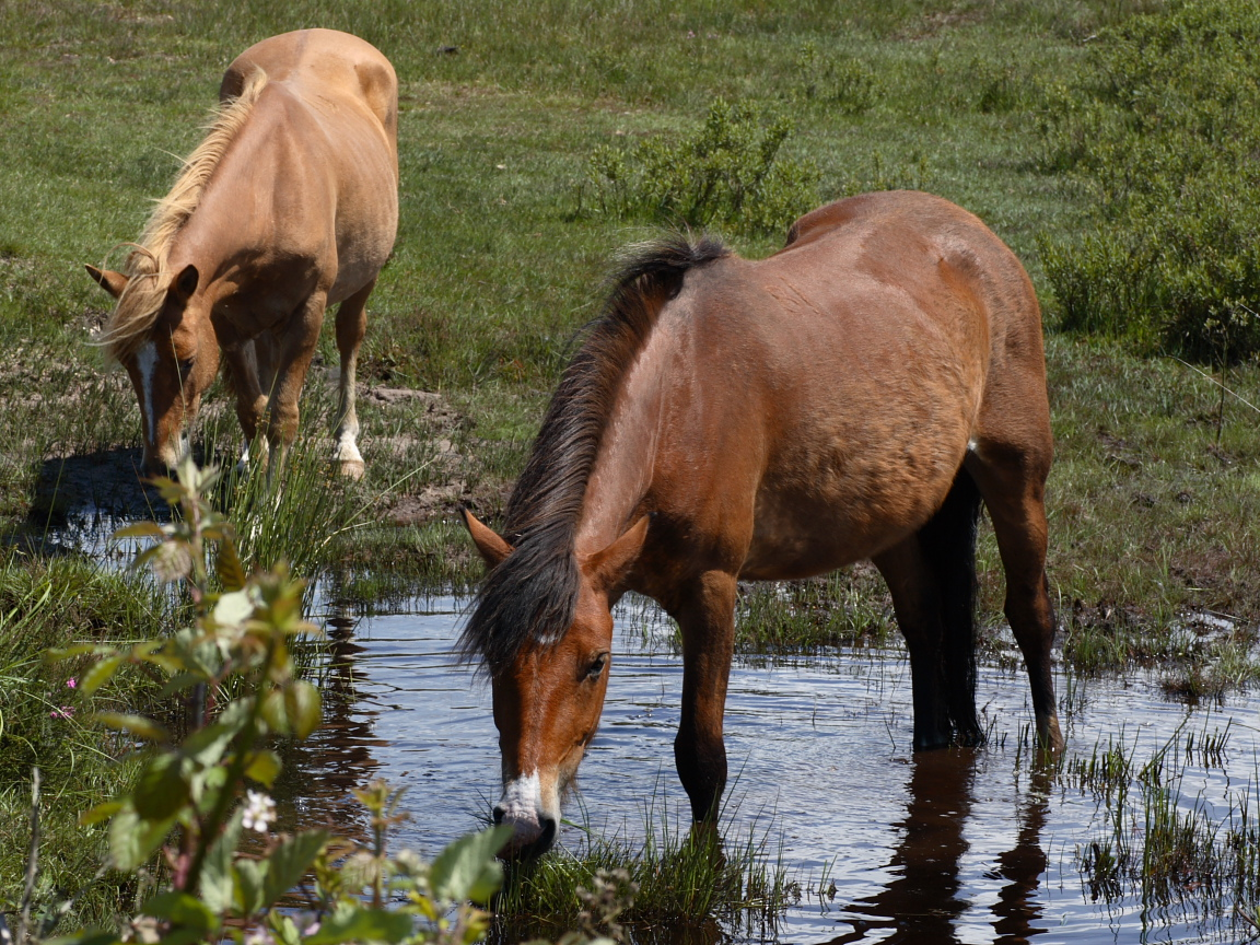 New Forest Ponies